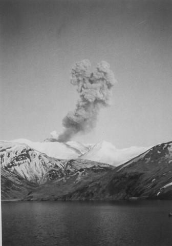 An ash cloud rises about 1.5 km above the cinder cone in the summit caldera of Akutan volcano on April 20, 1988.